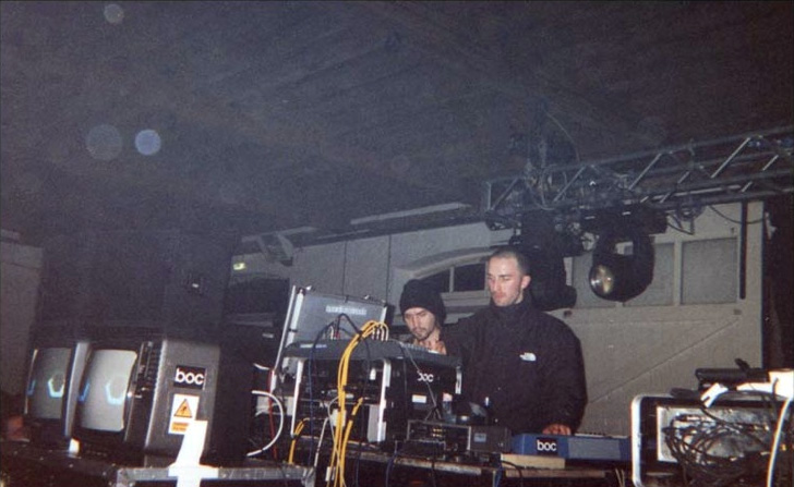 Michael Sandison and Marcus Eoin, the duo who make up the electronic music entity Boards of Canada, performing live at The Incredible Warp Lighthouse Party, 14 October 2000. Lossless crop of original photo from Flickr user pudstah.